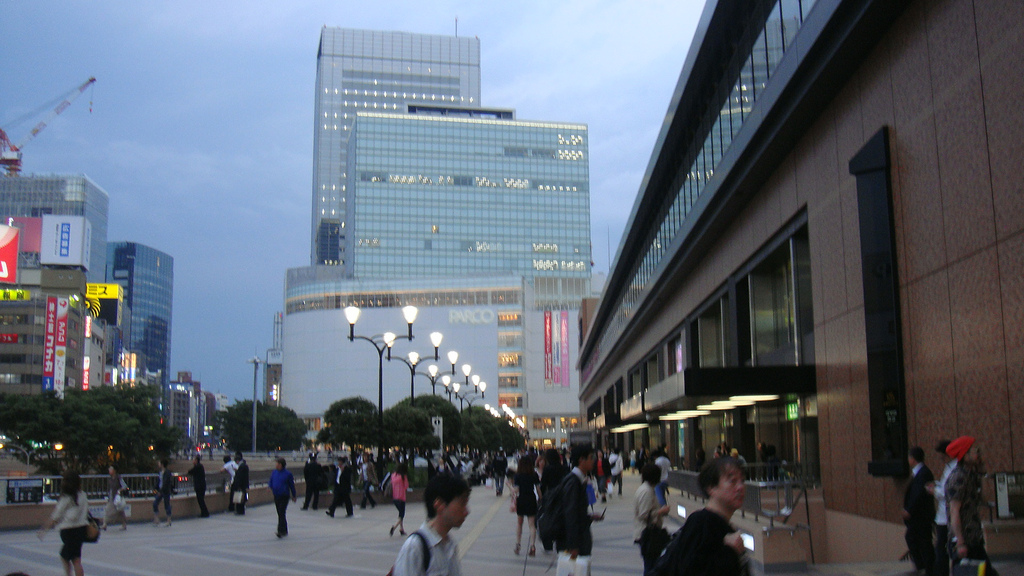 Sendai station and PARCO